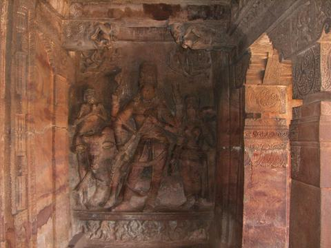 This photograph was taken by Sudarshan Bhat Khandige during his visit to Pattadakal-Badami in Karnataka state, India in 2006. The image has been uploaded into wikipedia with full permission from the owner.